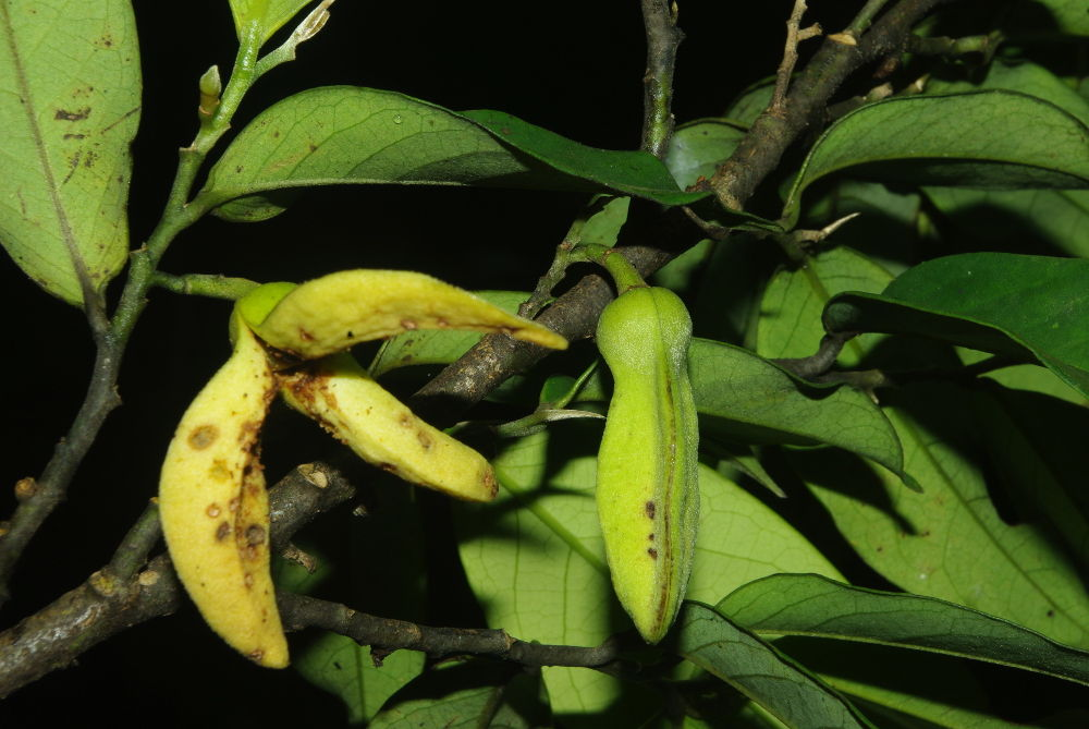 Annickia affinis (Annonaceae) from the Dja Faunal Reserve. Photo: TLP Couvreur.